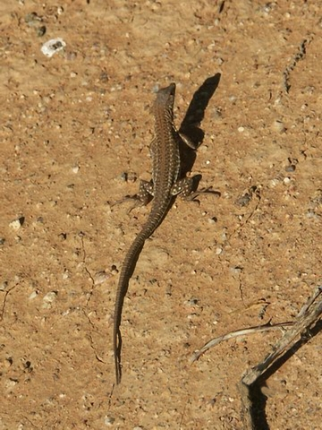 Meroles knoxii in Namaqua National Park, Northern Cape, South Africa